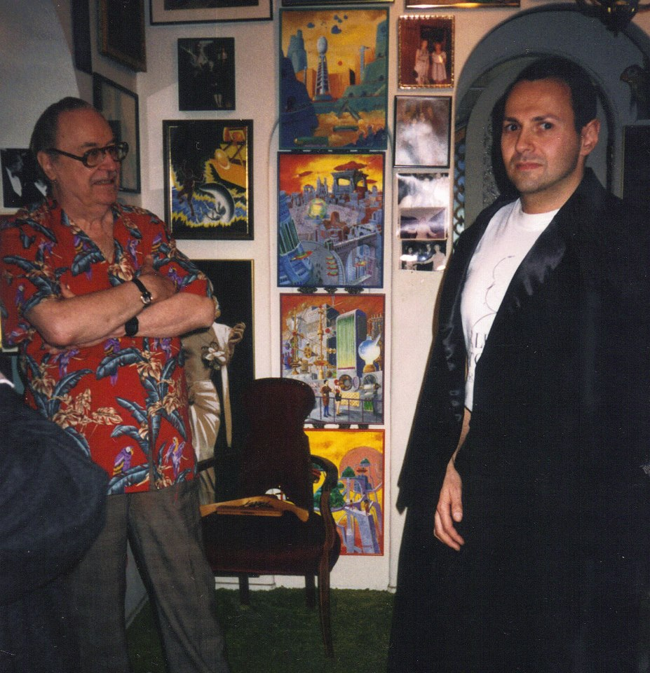 Forrest J. Ackerman letting a fan try on cape worn by Bela Lugosi in film Plan 9 from Outer Space (1959), directed by Ed Wood.